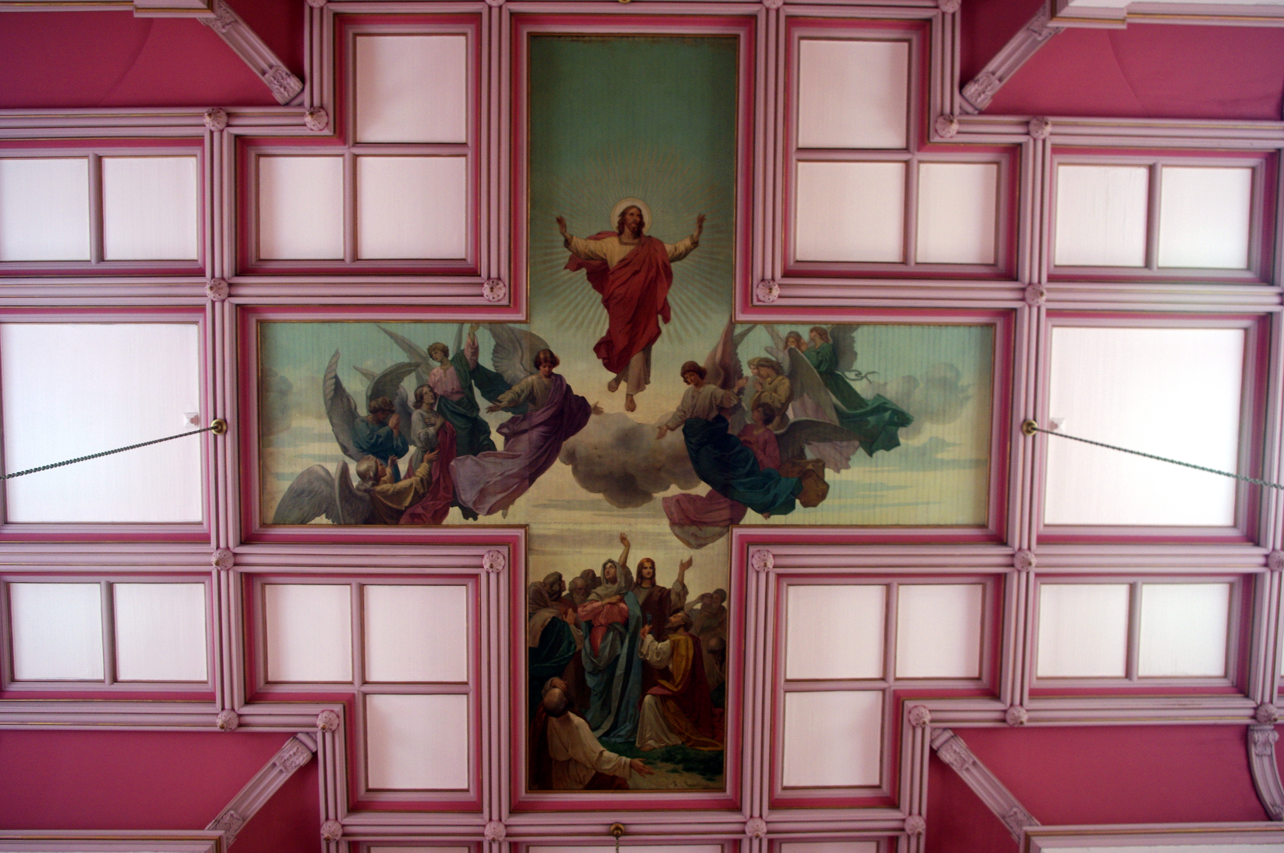 Church of the Immaculate Conception (Saint Mary-of-the-Woods, Indiana), interior, mural on the ceiling, The Ascension, painted by Tadeusz Żukotyński